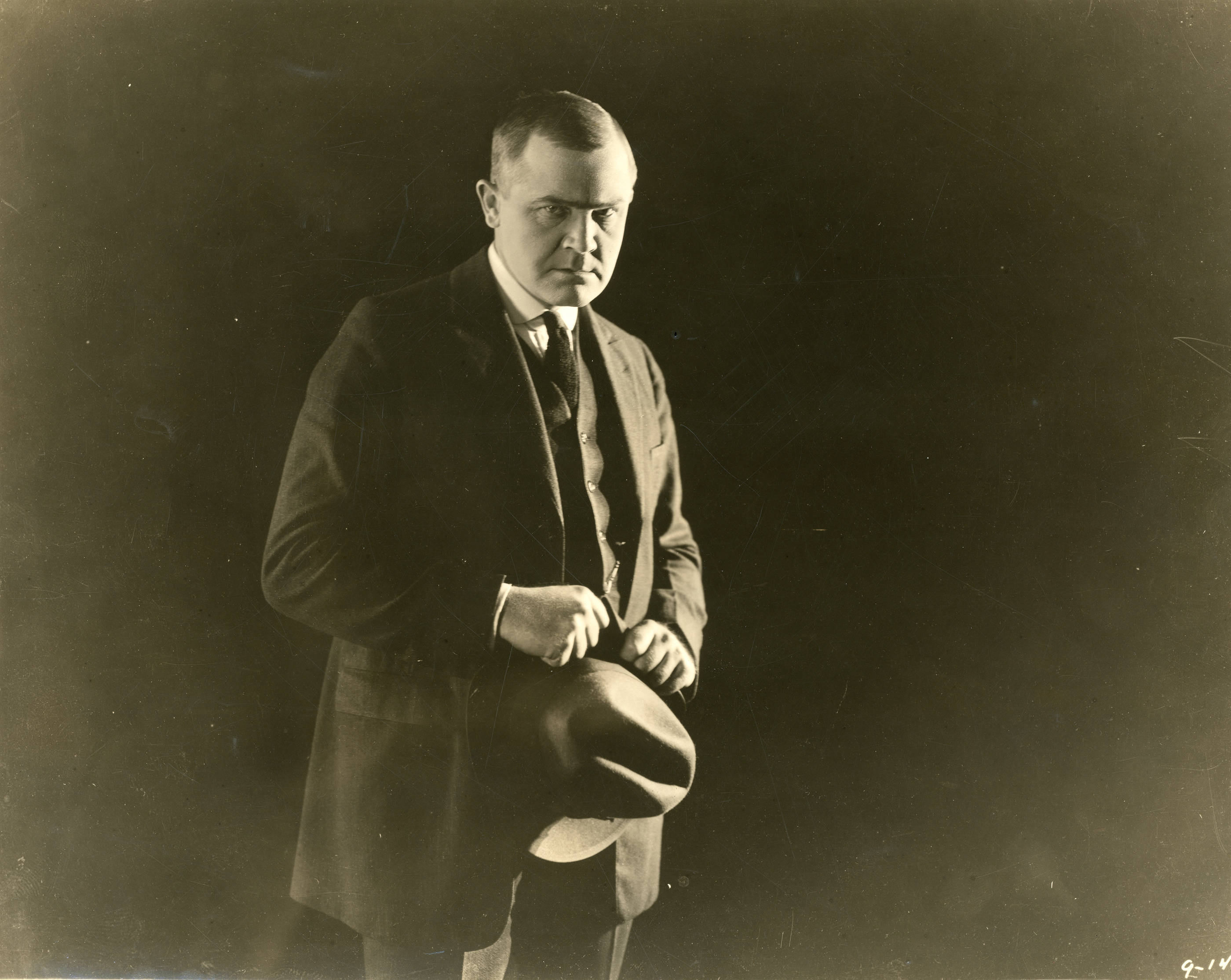 Film actor Wade Boteler. Subjects: actors